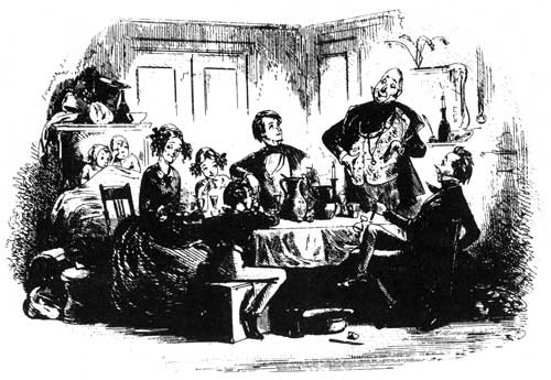 David Copperfield, Mr Micawber delivers some valedictory remarks by Phiz